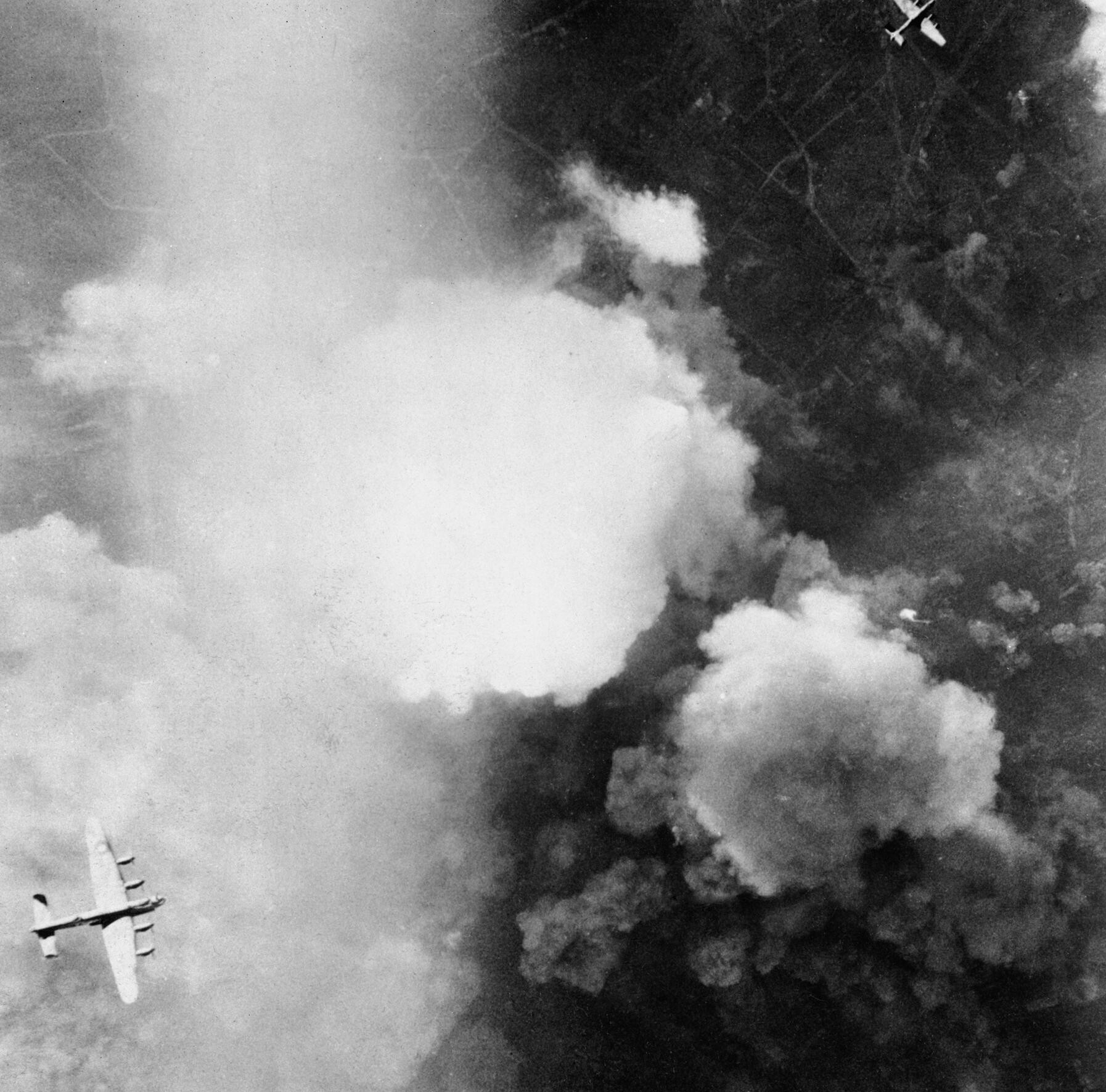 Royal Air Force Bomber Command, 1942-1945. An Avro Lancaster (bottom left) and a Handley Page Halifax (top right) fly over Essen, Germany, during a major daylight attack by 771 aircraft which inflicted heavy damage on buildings and the city's remaining industries. The Lancaster is flying over the Krupps steelworks from which clouds of smoke from exploding bombs is rising into the air.